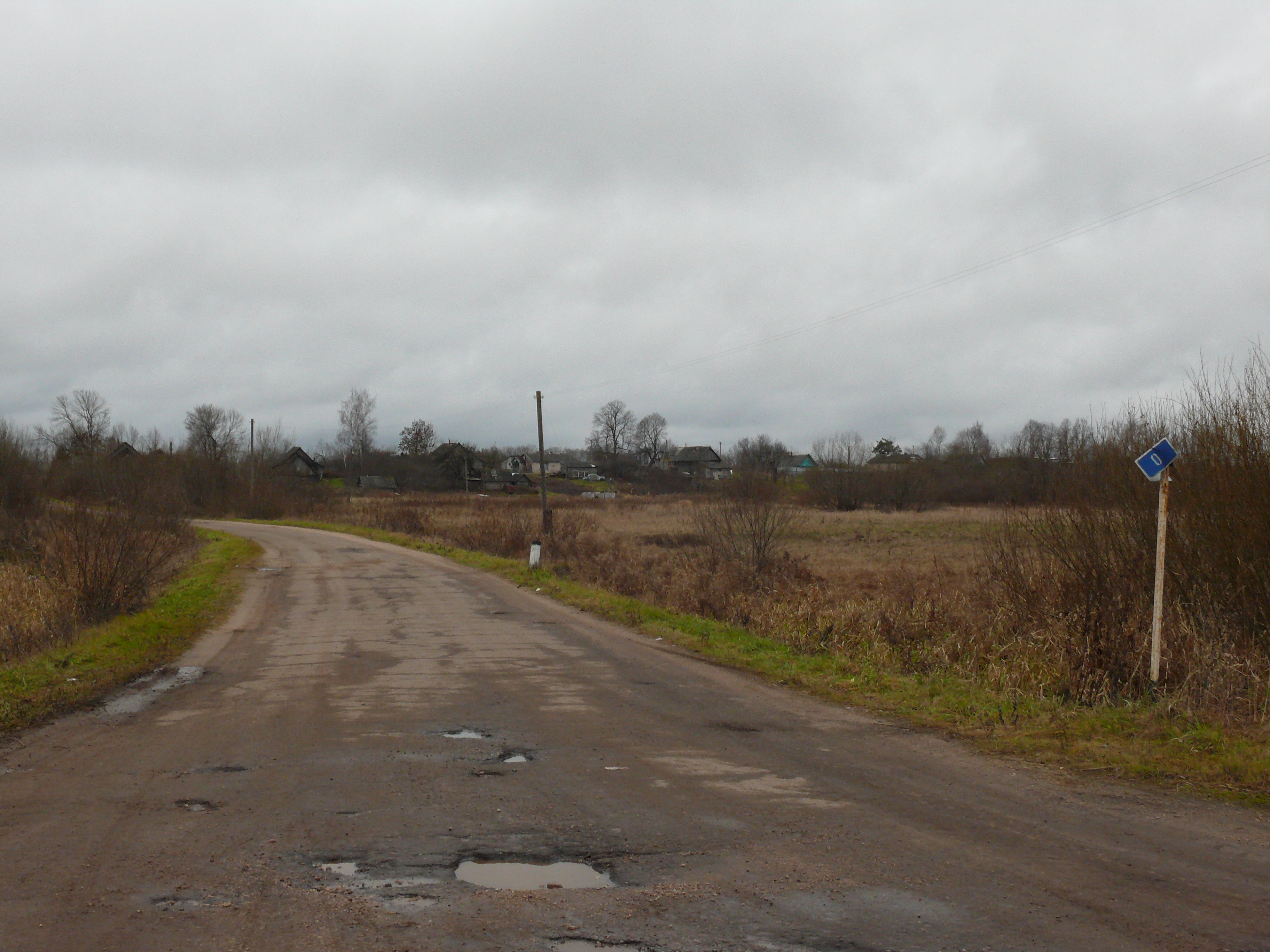 Malaya Viton village. Shimsky district, Novgorod oblast, Russia